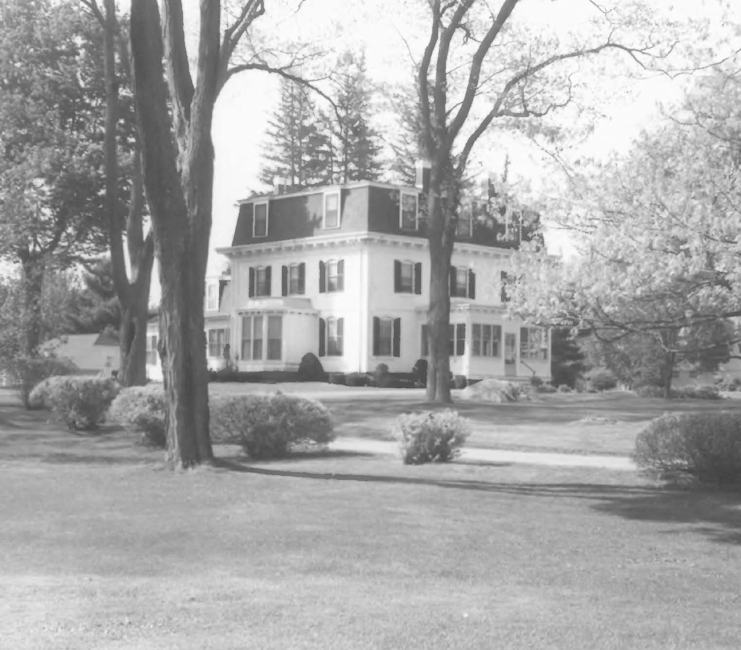 Governor's House - Director's Quarters,Togus (Kennebec County, Maine) cropped This image or media file contains material based on a work of a National Park Service employee, created as part of that person's official duties. As a work of the U.S. federal government, such work is in the public domain in the United States. See the NPS website and NPS copyright policy for more information. Object location44° 16′ 48.27″ N, 69° 42′ 08.18″ W